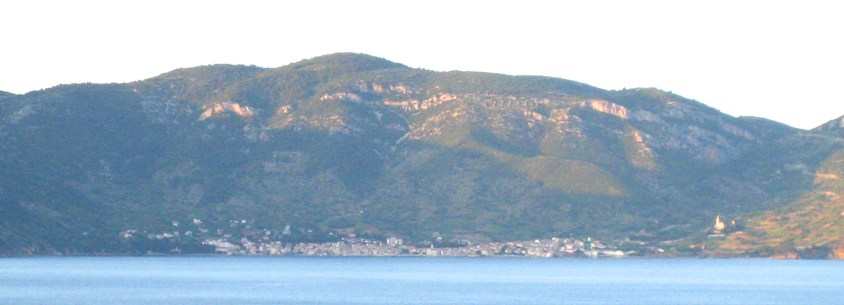 Komiža, harbor on island Vis, Croatia